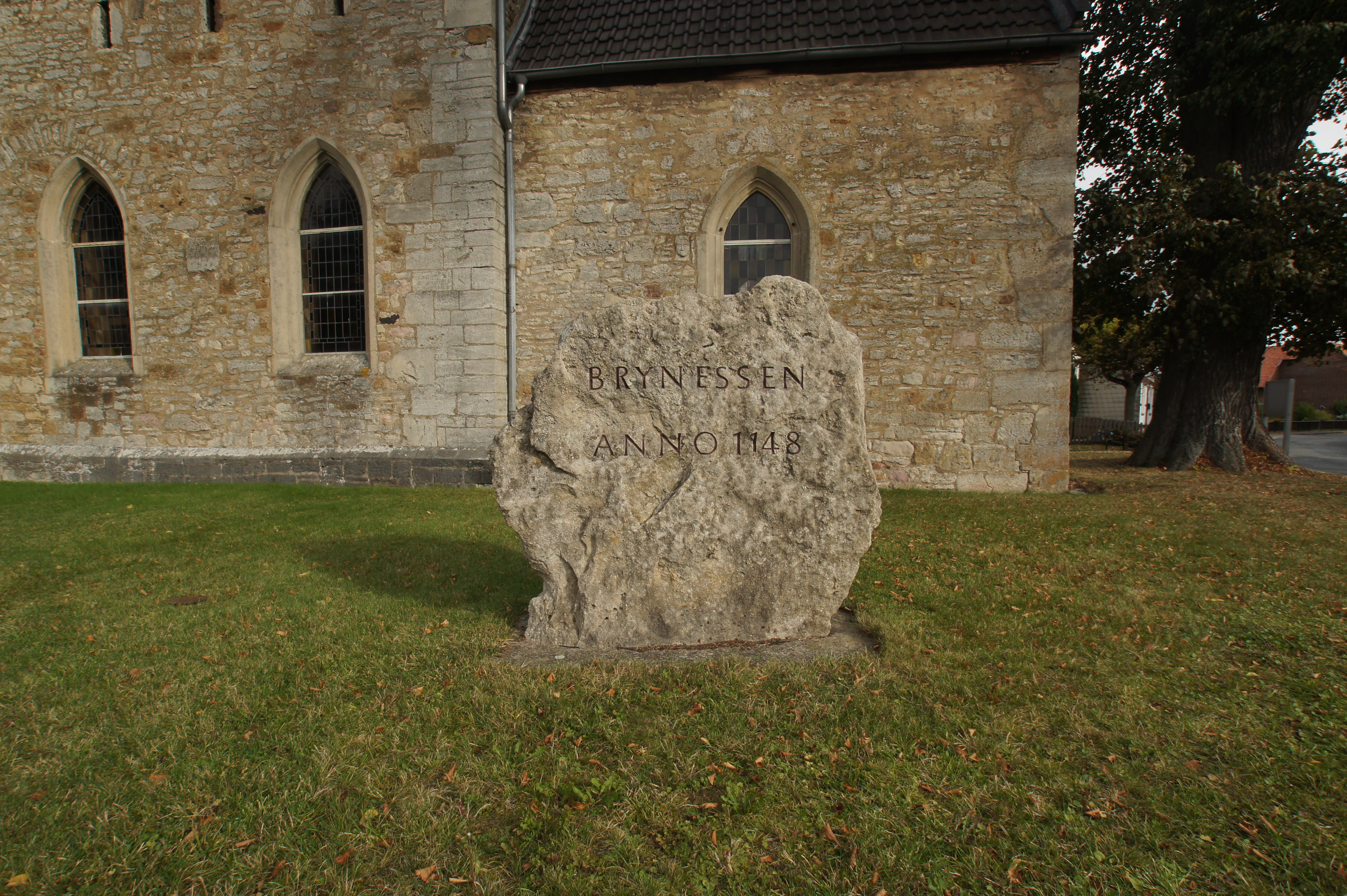 Einbeck (Brunsen), Germany: Monument for the first written mention of the village Brynessen